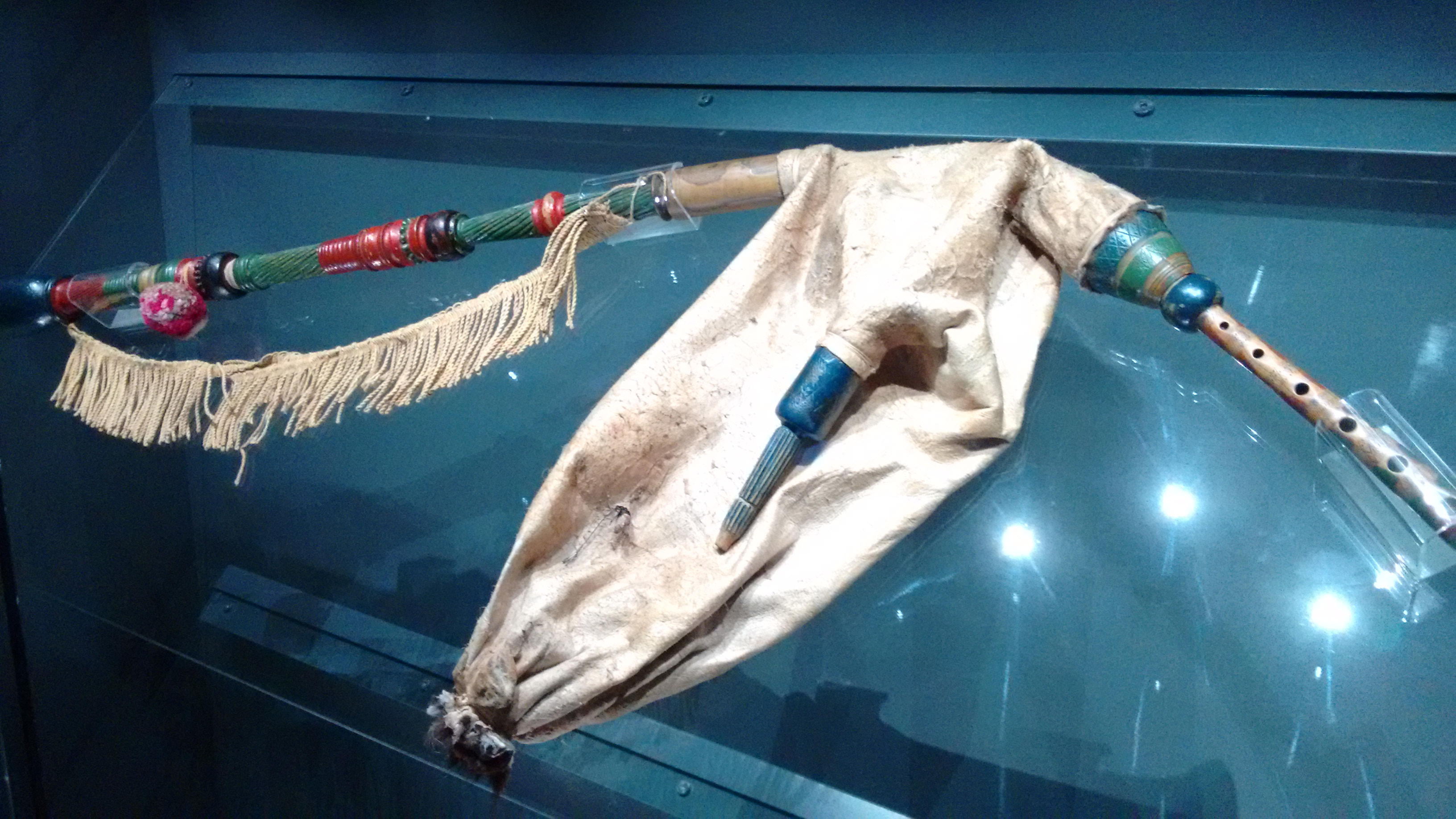 Portuguese bagpipes at the Museum of Portuguese Music, Estoril, Lisbon District, Portugal